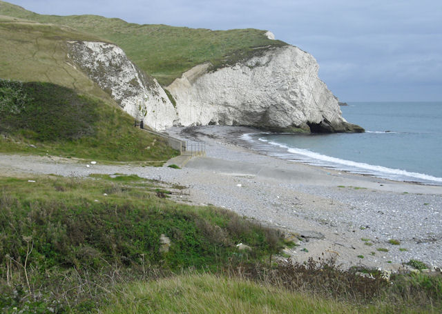 Arish Mell This small cove is locked off from the coast path even when the range walks are open.